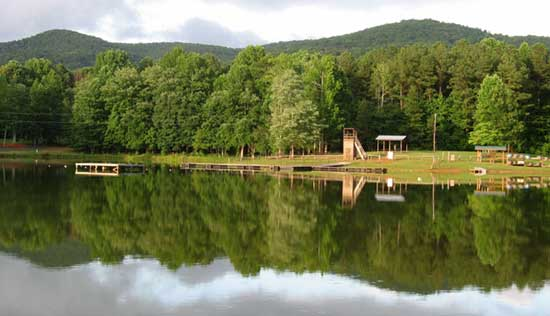 One of the best shots of Camp Sidney Dew, this picture shows the true beauty of the lake used during summer camp for various lake merit badges.